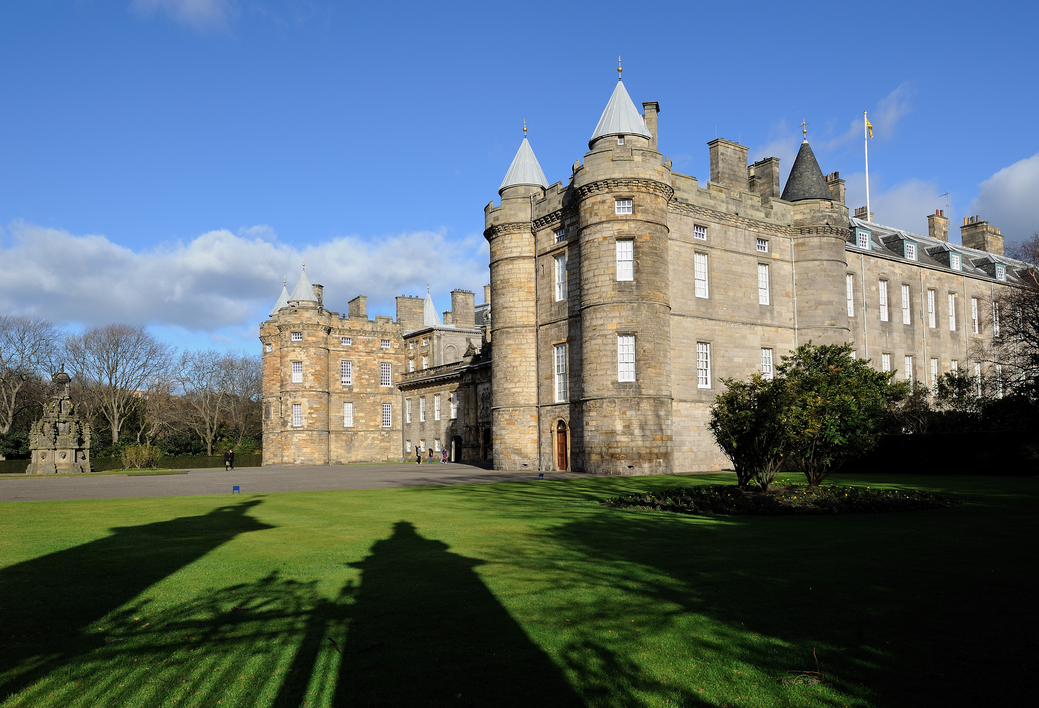 The Palace of Holyroodhouse is the official residence of the UK monarch while in Scotland. The palace and Edinburgh Castle are at opposite ends of the "Royal Mile" of Edinburgh City.